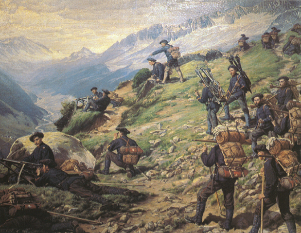 Painting representing the Swiss army during exercise